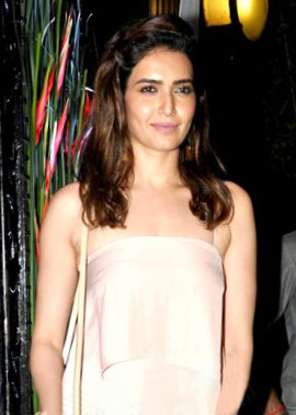 Karishma Tanna at Rakesh Roshan's birthday bash.